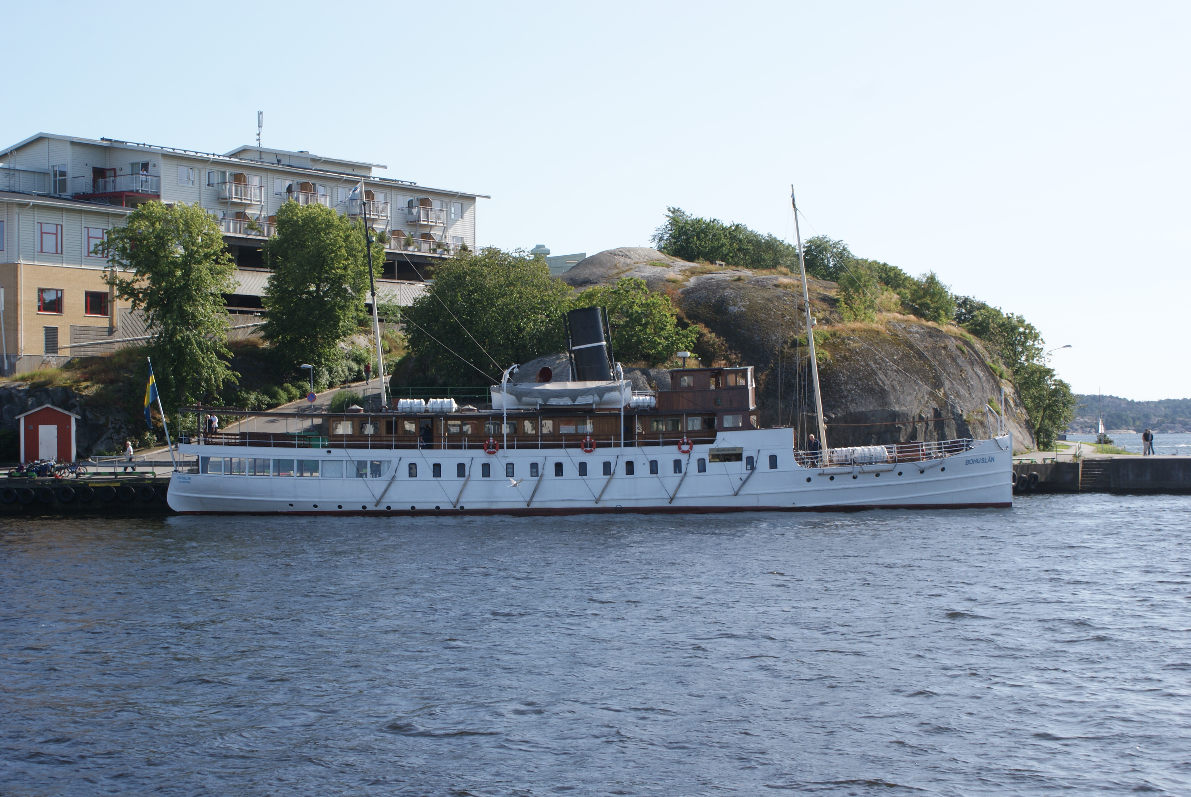 S/S Bohuslän vid Laholmen i Strömstad. This is an image of the protected Swedish ship S/S Bohuslän, with call sign SDKM .